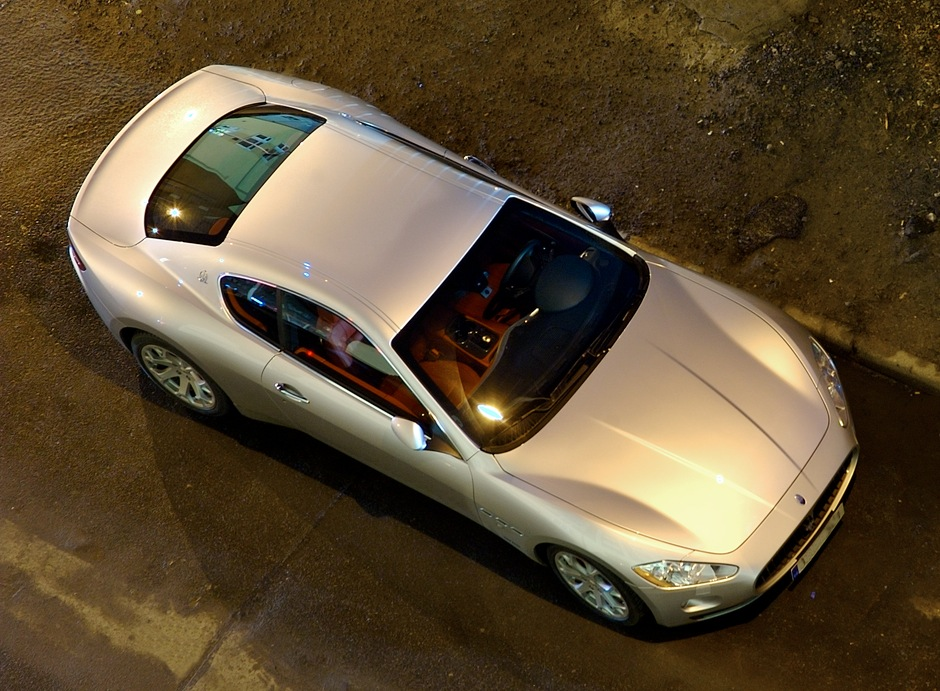 Maserati GranTurismo